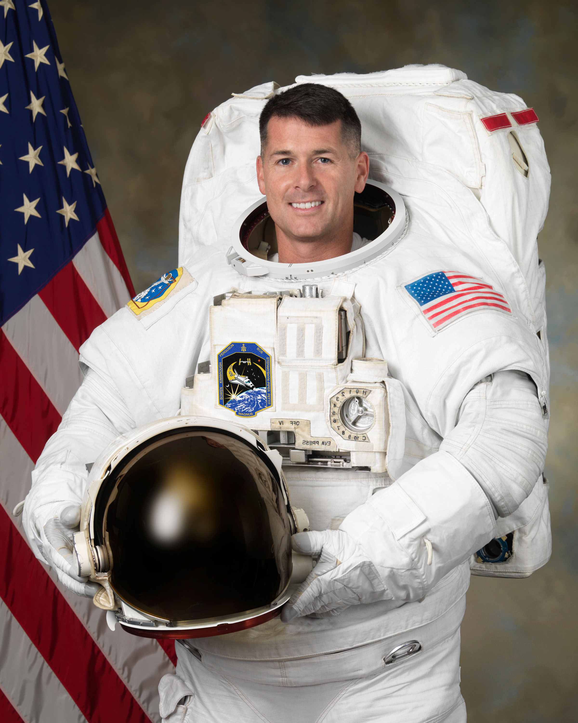 Official portrait image of NASA astronaut R. Shane Kimbrough